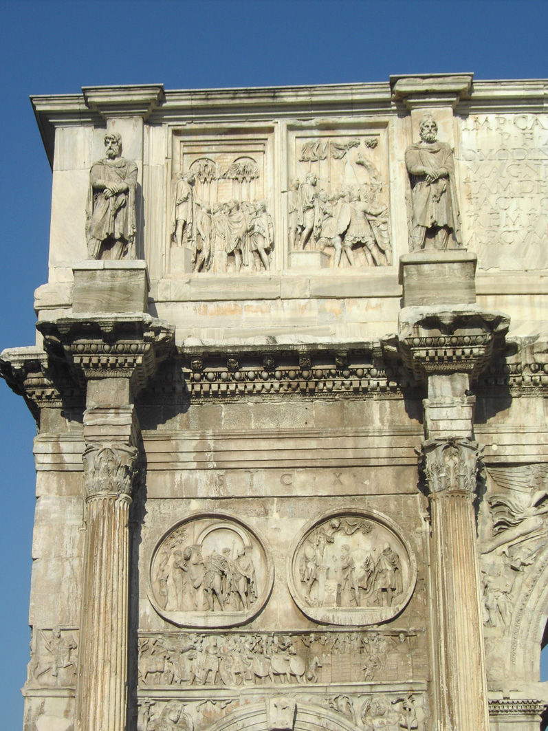 Statues of Dacians surmounting the Arch of Constantine in Rome (southern side, left).